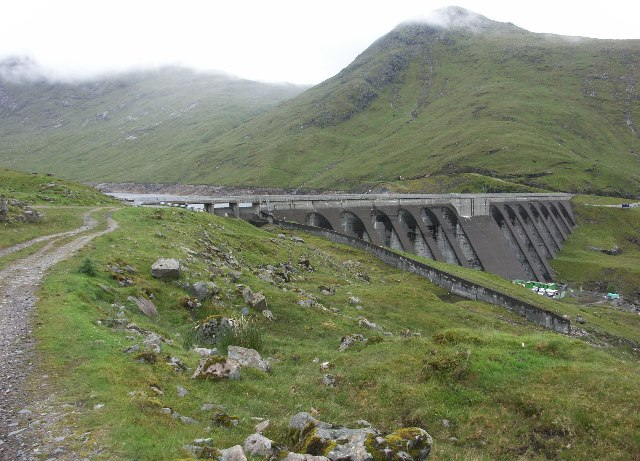 Cruachan Dam.